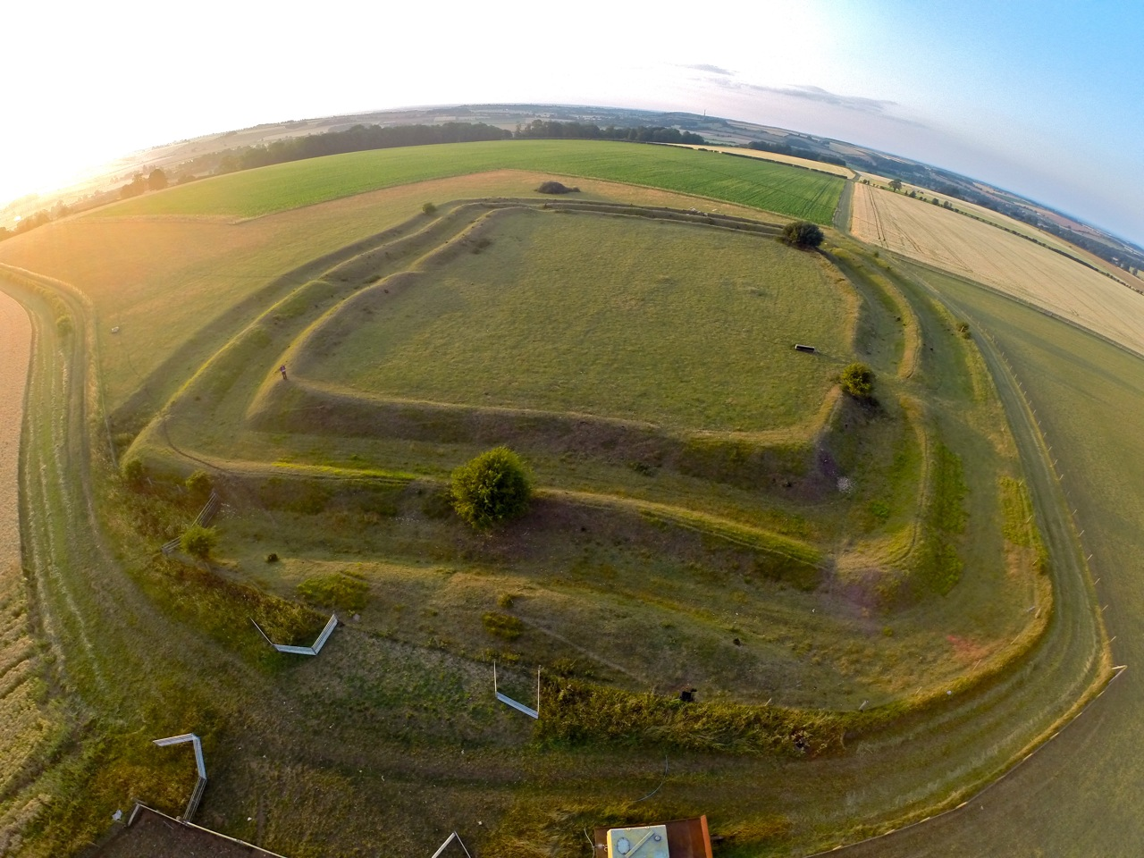 Roman Hill Fort near Honington, Lincolnshire. Taken at sunset on 15th July 2015